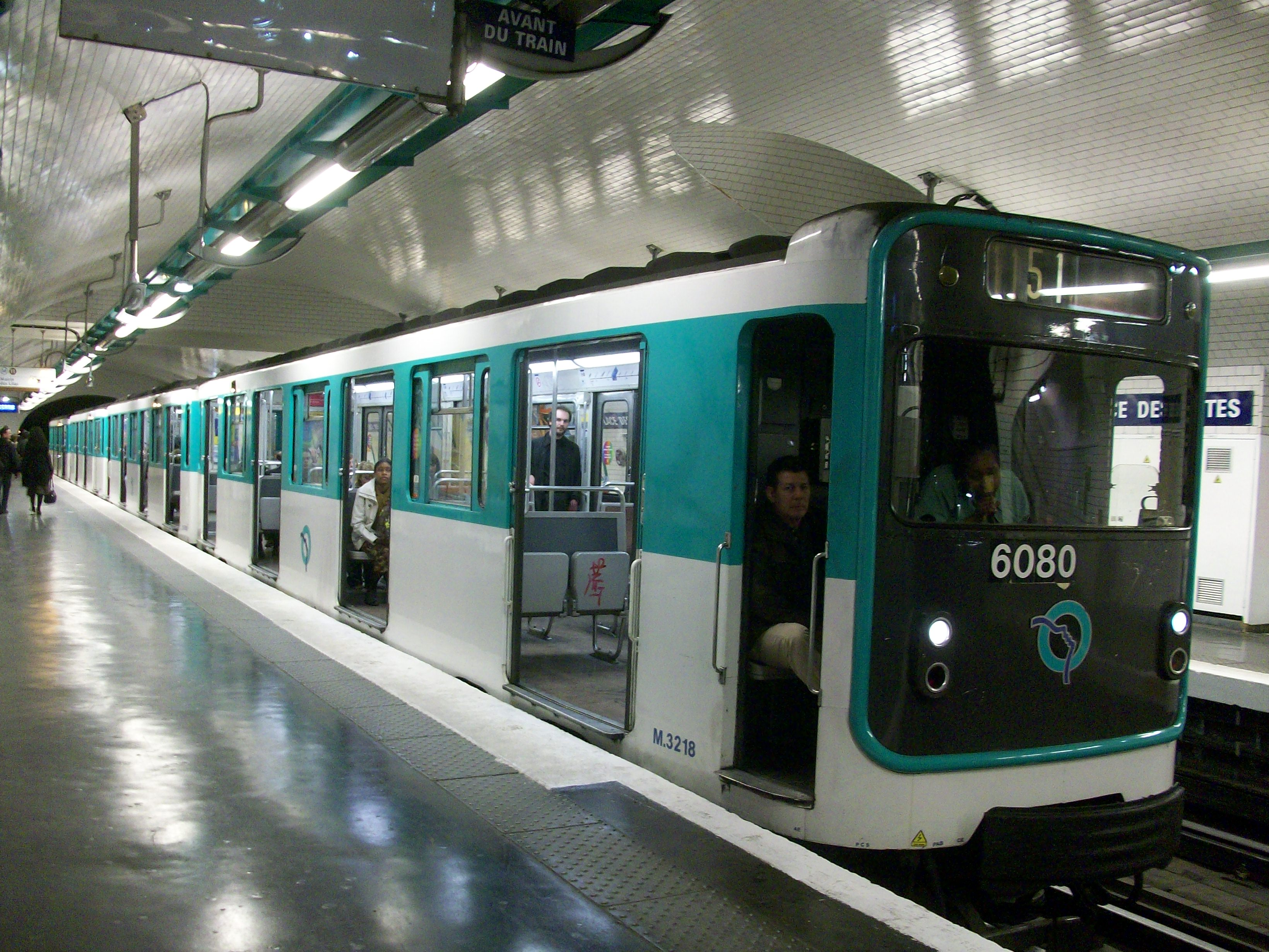 Subway type MP 59 from Paris (Place des Fêtes station).